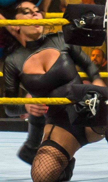 Maxine during a match at NXT in April 2012.